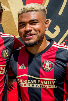 During the Delta and Atlanta United Wallscape Unveiling in Decatur, Georgia, Monday, August 21, 2017